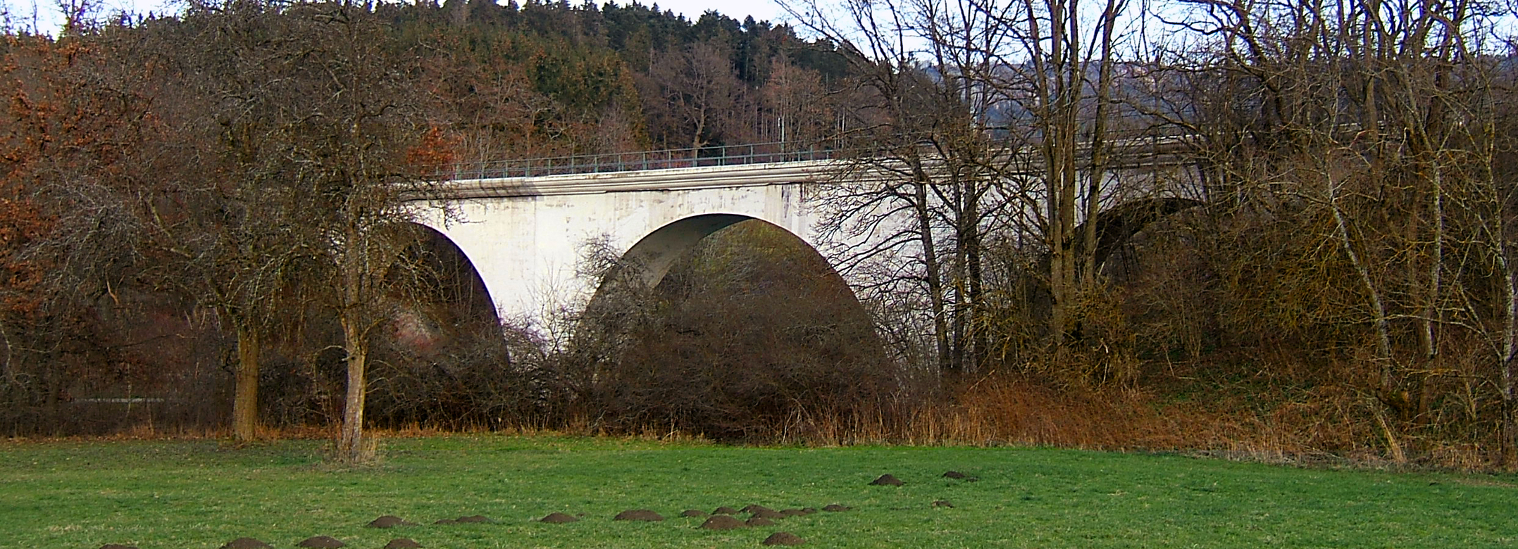 Schlichemtalsperre in Schömberg (bei Balingen), Baden Württemberg, Germany; the storage lake is covered by ice, view to Schlichem viaduct